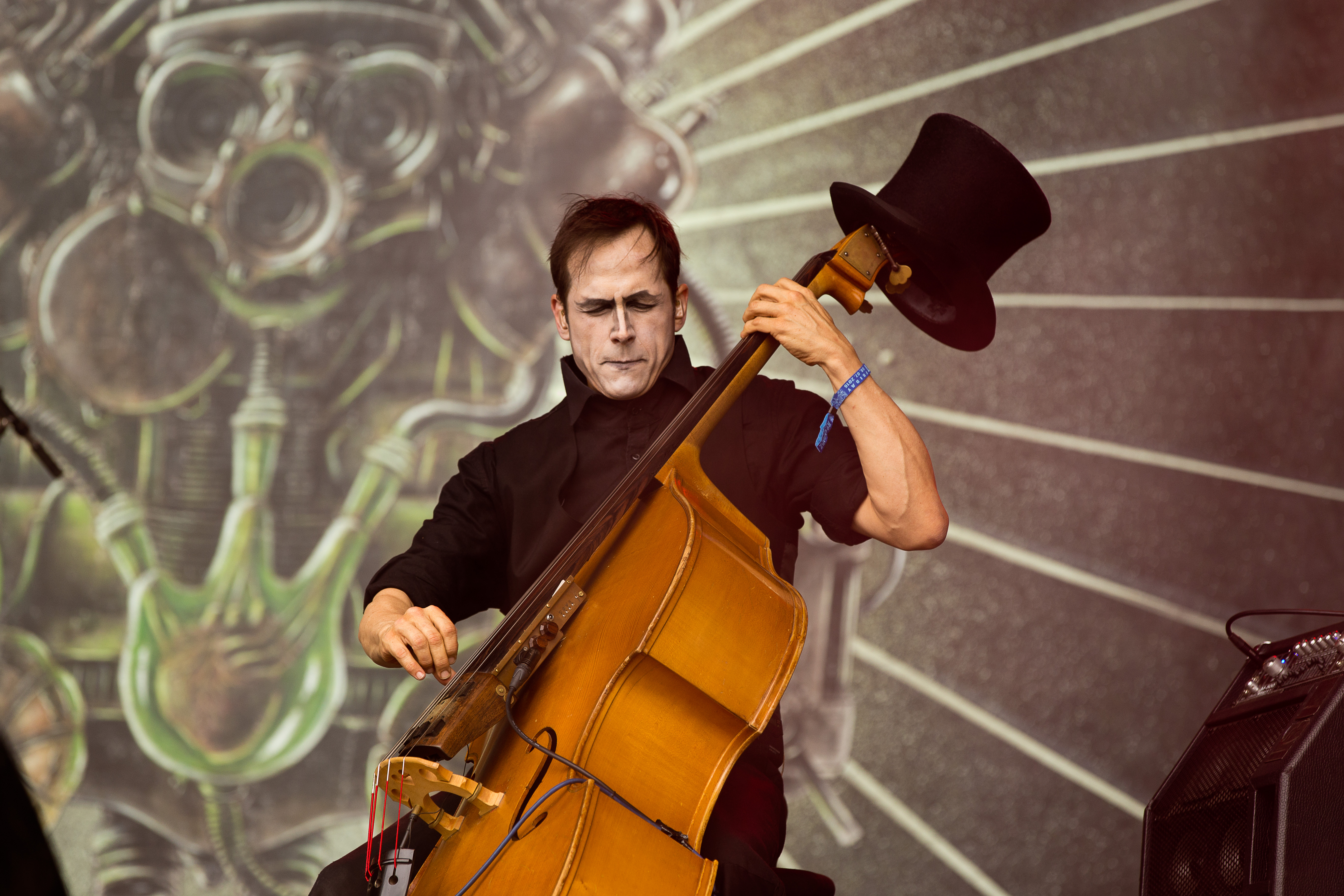 The German metal band Coppelius at the Rockharz Open Air 2016 in Ballenstedt/Germany.